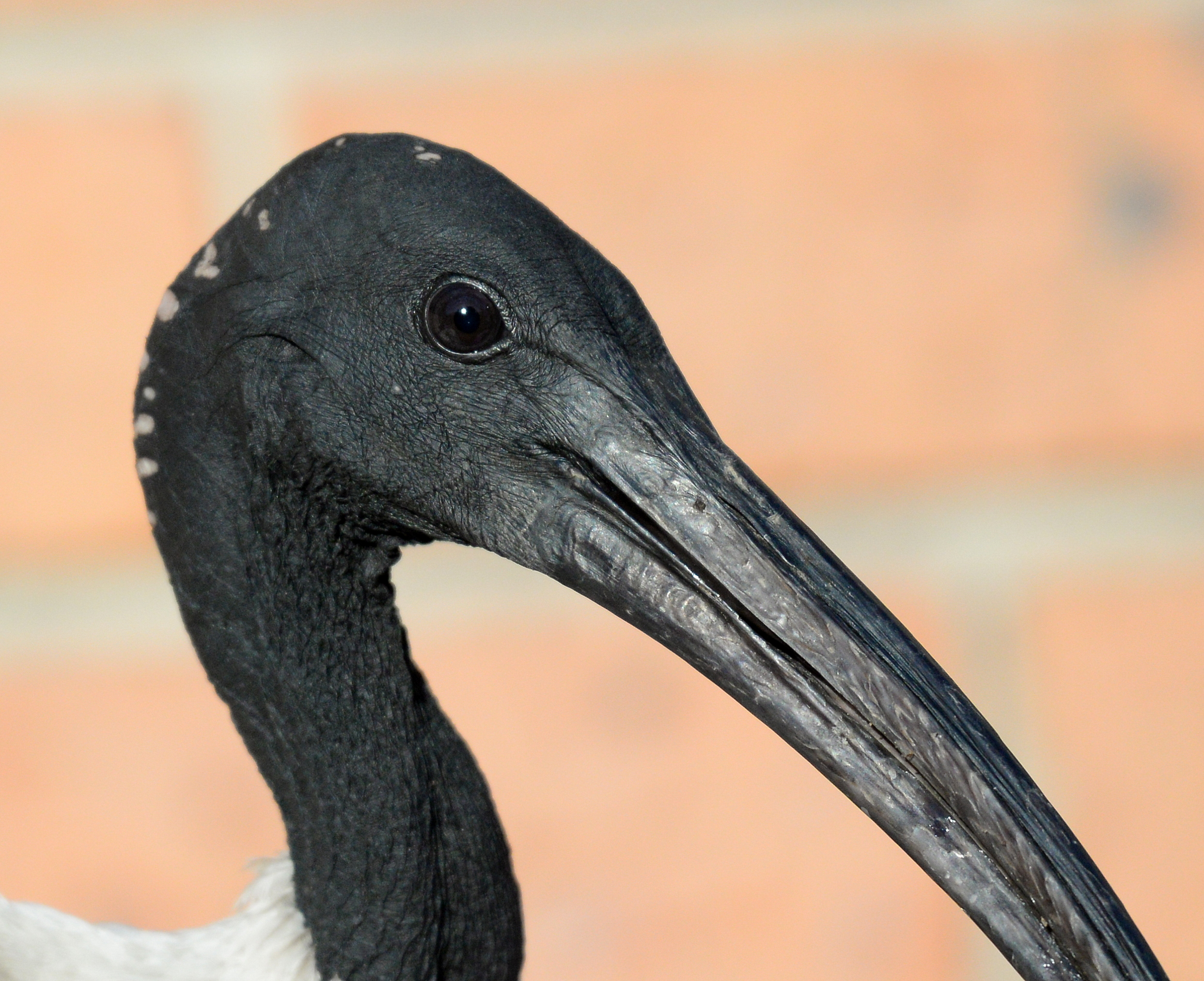 Ibis, Kensington, Sydney